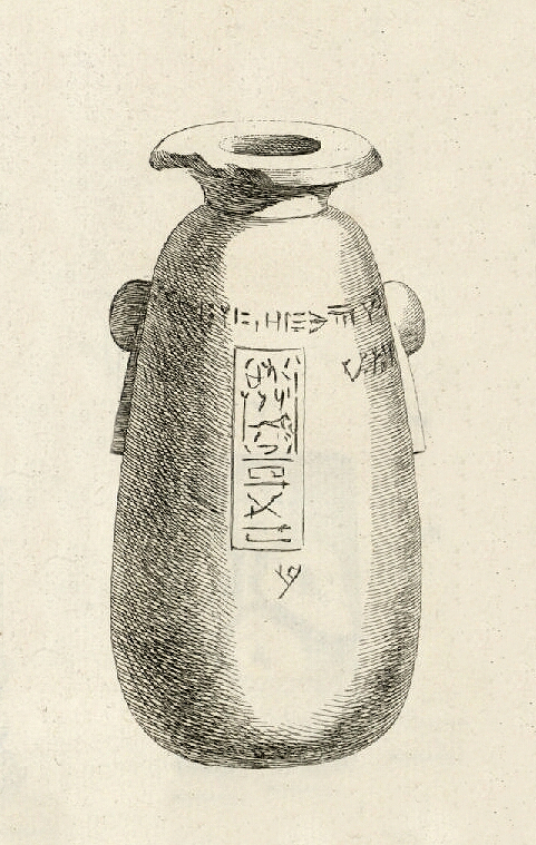 Caylus vase 1762